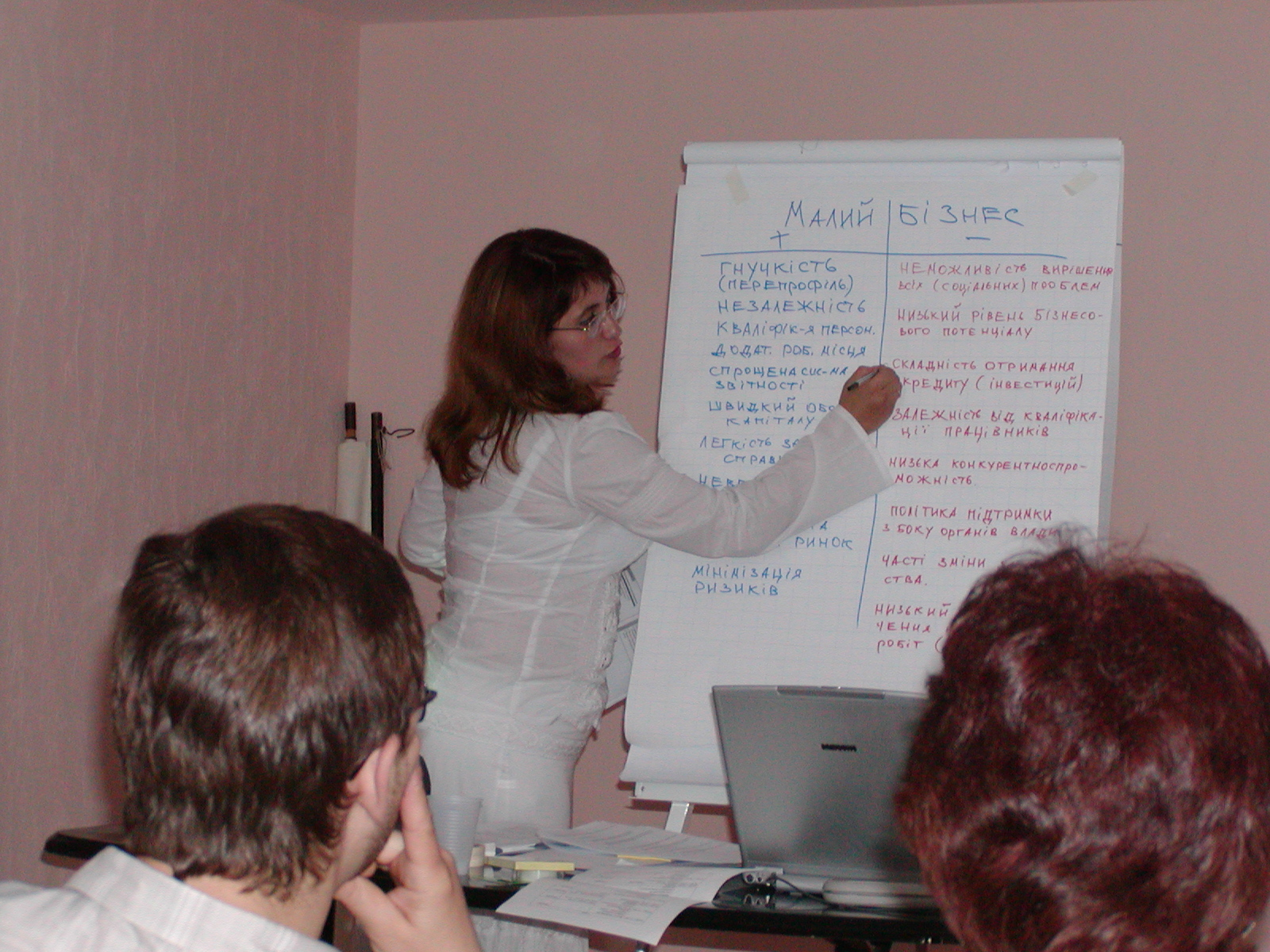 Economic development training session in a with the member of a community organisation.